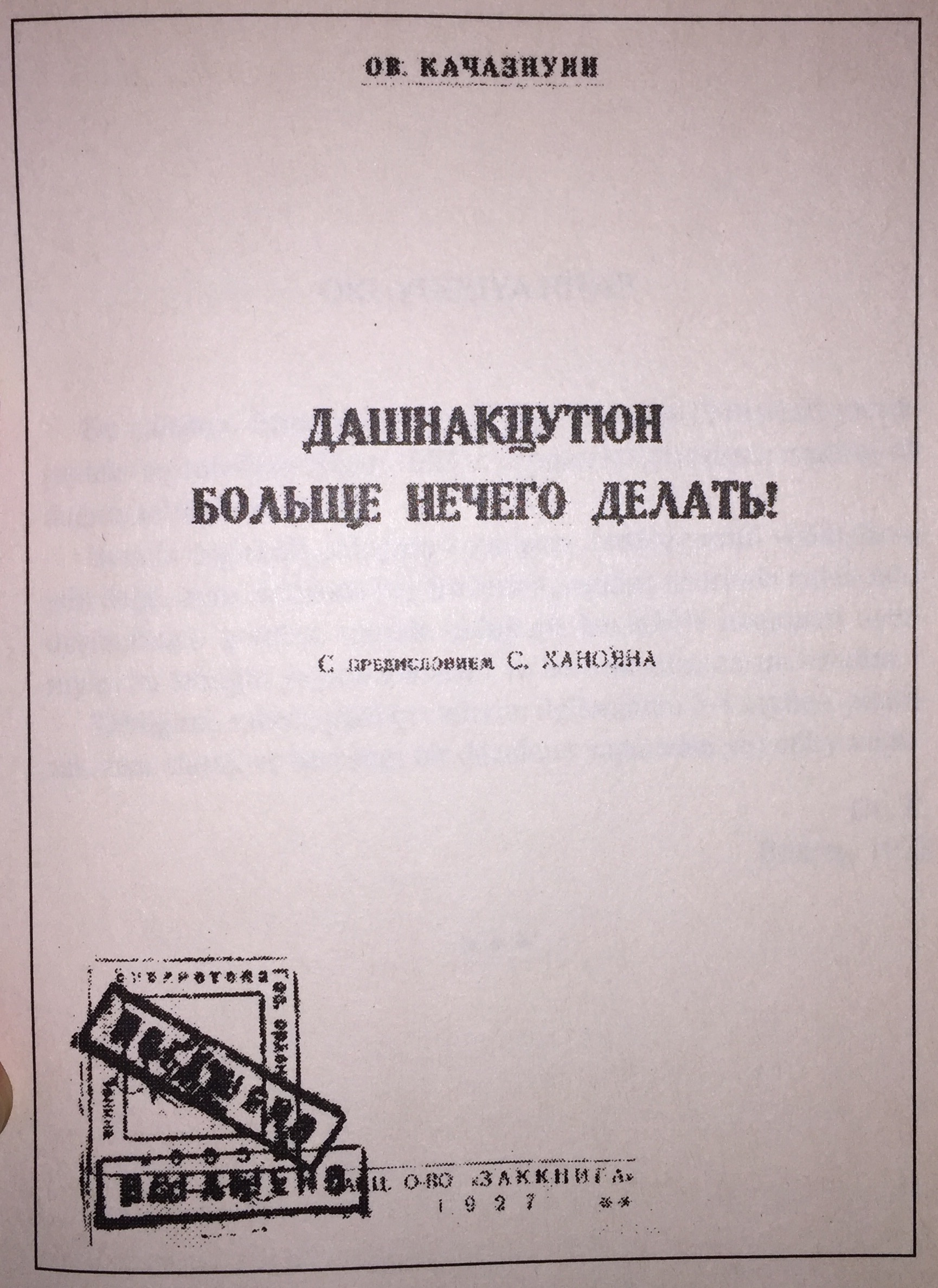 Original Russian Translation of the book "The Armenian Revolutionary Federation Has Nothing To Do Any More: The Manifesto of Hovhannes Katchaznouni" Cover page (p.27)